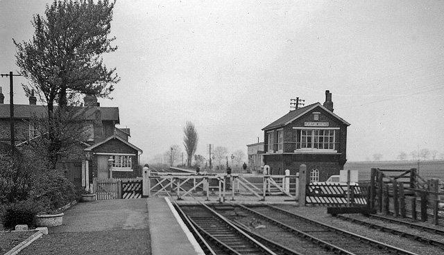 Burton Agnes railway station, Burton Agnes, East Riding of Yorkshire, England. View NE, towards Bridlington and Scarborough; ex-North Eastern, Selby/Hull - Driffield - Bridlington - Scarborough line. Note that the station had staggered platforms, one each side of the crossing. It closed on 5 January 1970.